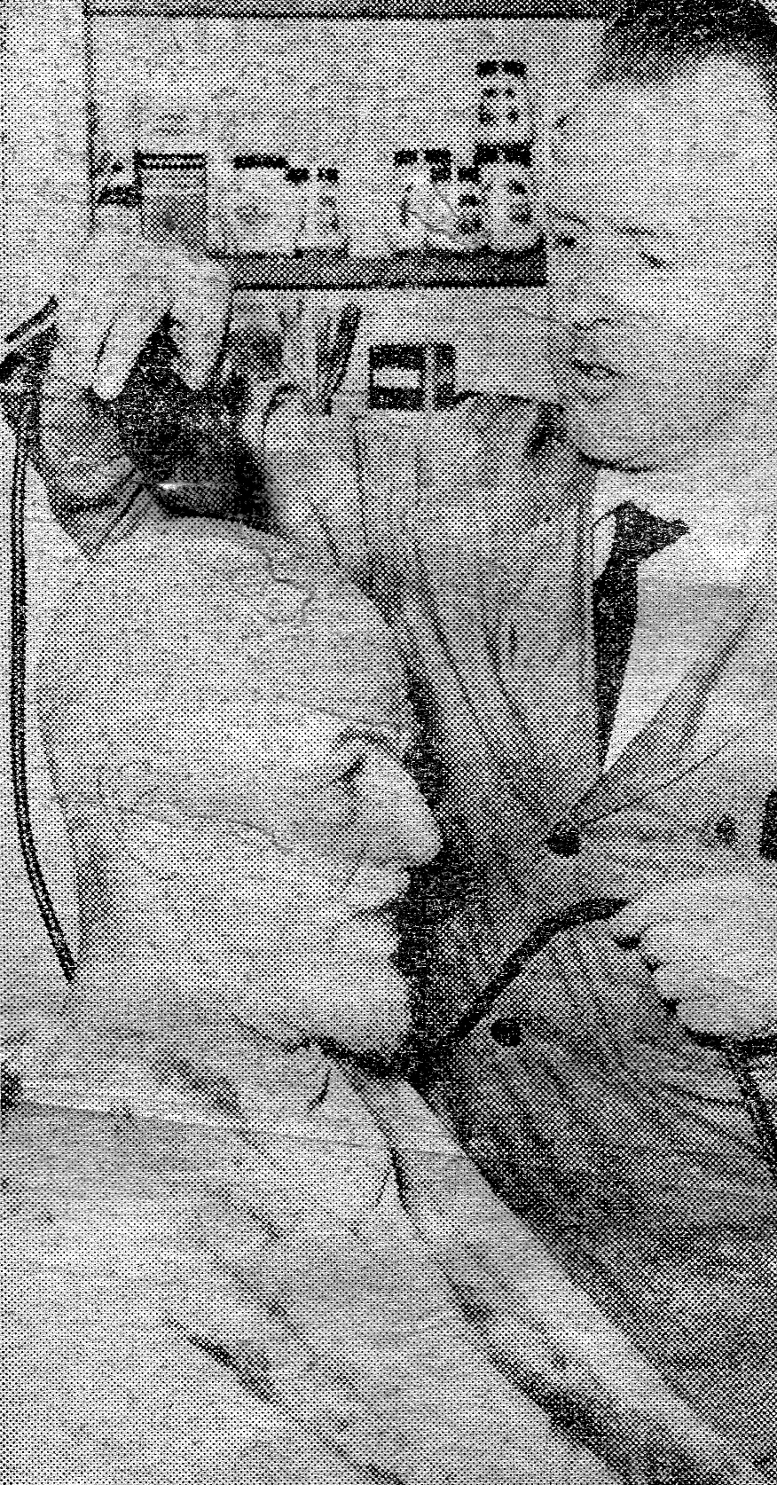 Laurie having head shaved for Hiroshima memory